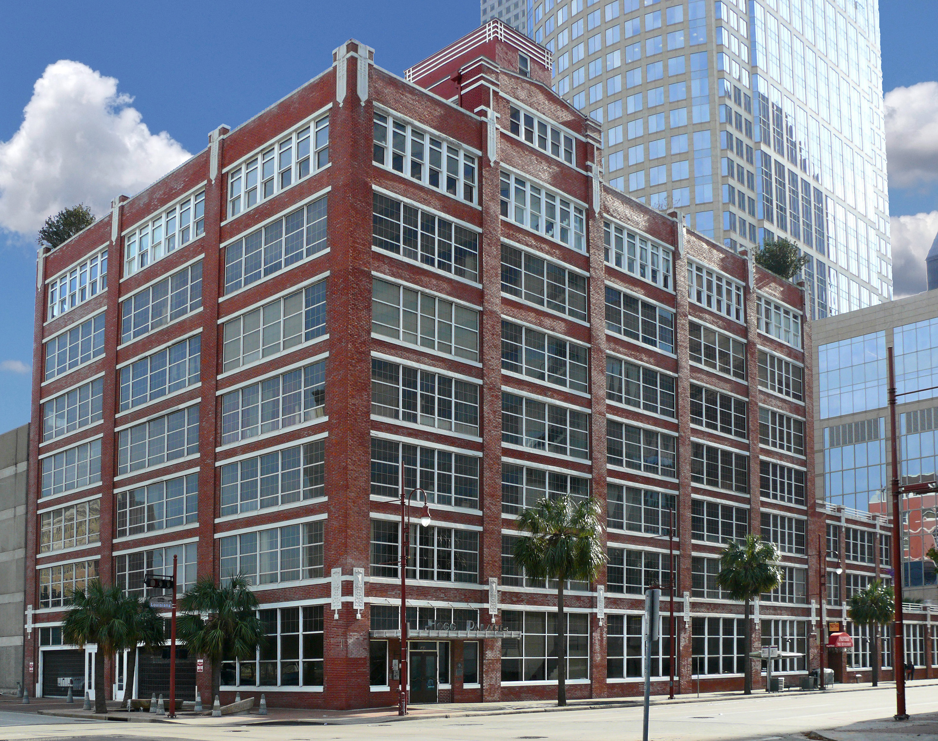 Noted Houston business and civic leader Will C. Hogg (1875-1930) had this commercial structure built in 1921. Early tenants included the Armor Auto Company and the Great Southern Life Insurance Company. The art deco building, designed by the engineering firm of Barglebaugh and Whitson, features an exterior dominated by industrial windows. A rooftop penthouse, used for offices of the Hogg family businesses, reflects Mediterranean influences. Will Hogg was the son of "Big Jim" Hogg, Governor of Texas. On the roof of the building, hidden behind the parapet, is an 18-room penthouse and solarium. The penthouse housed the personal offices of the Hogg family, with extensive roof gardens. Location N29° 45.771 W95° 21.838